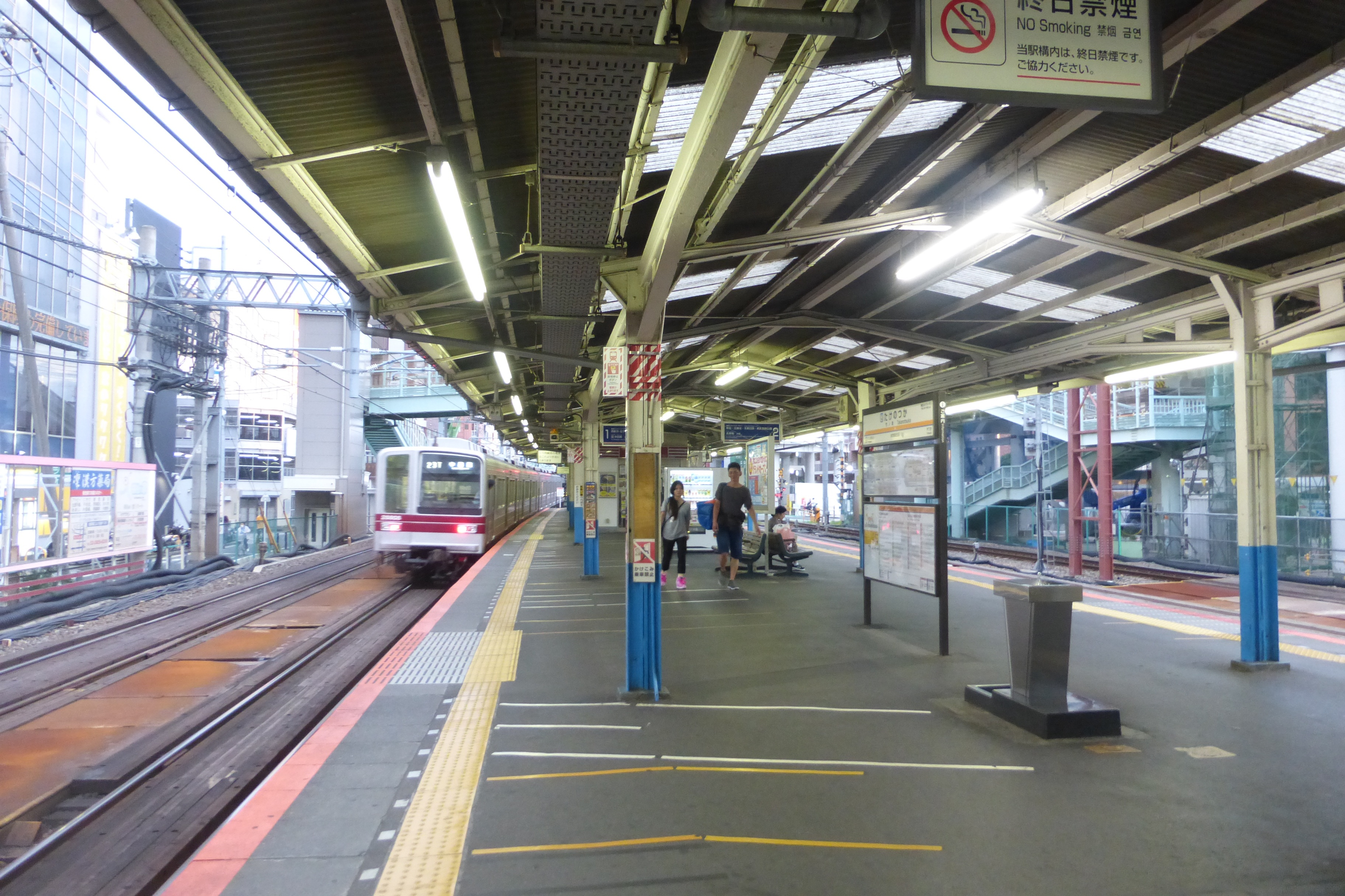 The platforms at Takenotsuka Station on the Tobu Skytree Line